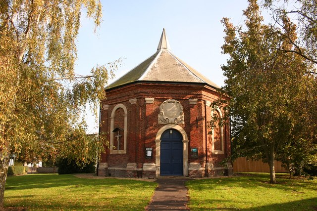 St.James' church. Originally an octagon by William Sands senior of Spalding in 1722 with a decidedly Dutch feel ... reputedly influenced by the late 17th century Dutch engineers employed in draining the fens. The chancel was added in 1886.